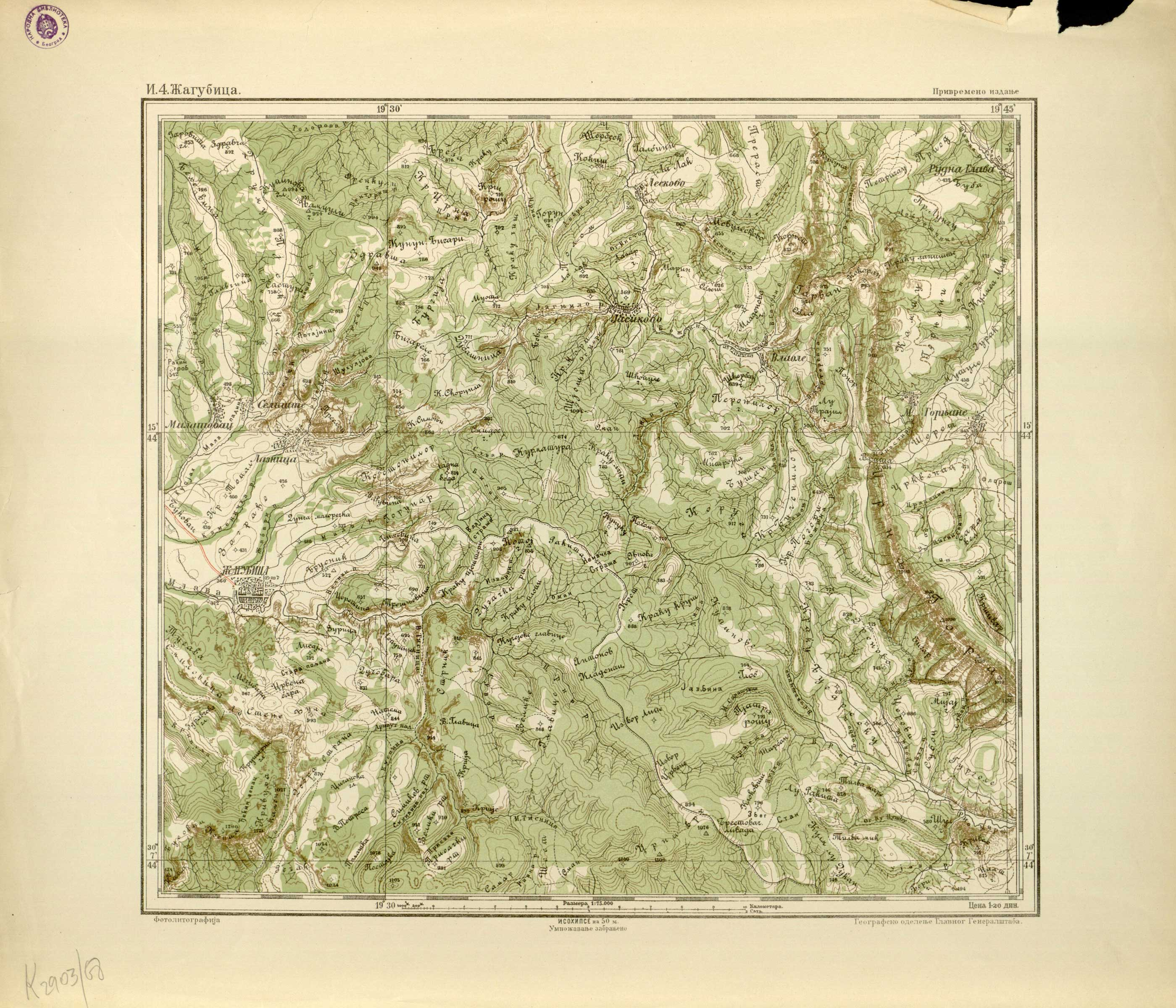 Digital copies of the Đeneralštabna map of Serbia. The map is printed in Belgrade, the 1894th , in 94 sections, with a topographic key and in scale 1:75.000. This is the first special military map of Serbia was published in the country.